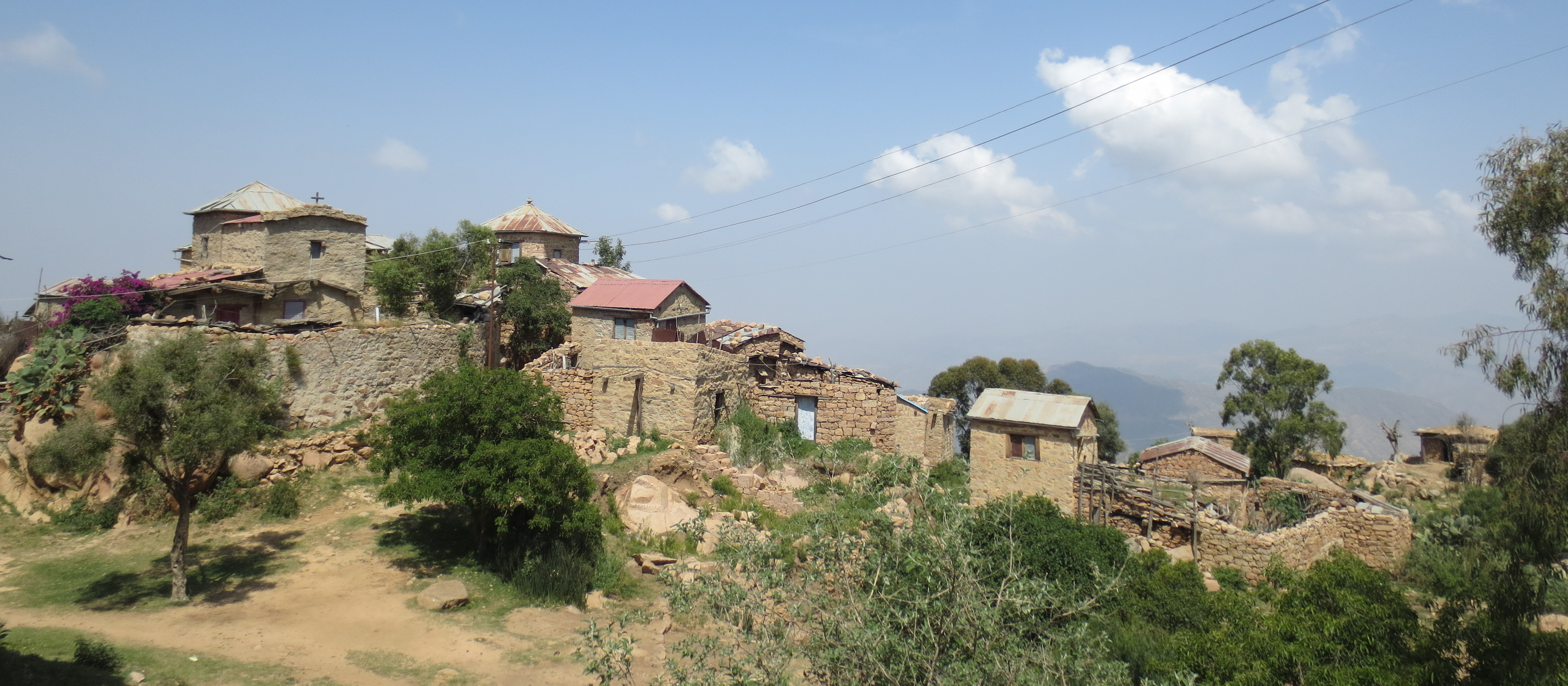 Partial view of the monastery Debre Bizen, near Nefasit, in Eritrea.